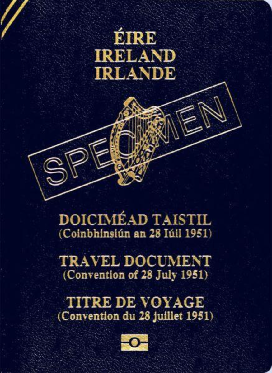 Front cover of an Irish travel document issued to refugees under the 1951 convention.